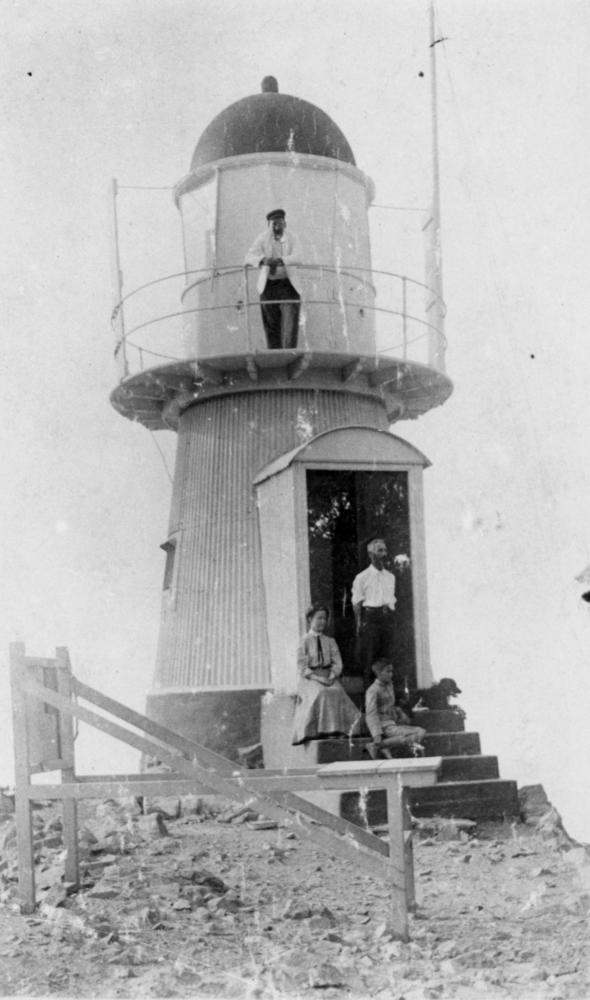 Family group at the lighthouse on Goode Island, Torres Strait, ca. 1909 Family group in the doorway of the lighthouse on Goode Island, Torres Strait, ca. 1909. A man stands in the doorway and a woman, child and dog sit on the steps. A man in a cap leans on the rail of the upper balcony of the lighthouse.